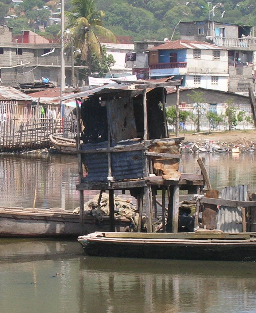 An overhung toilet in the area of Shada, Cap-Haitien.